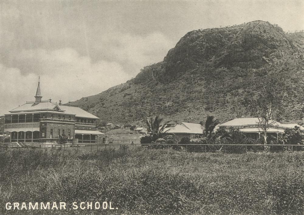 Grammar School building nestled under the hill, Townsville, ca. 1900.